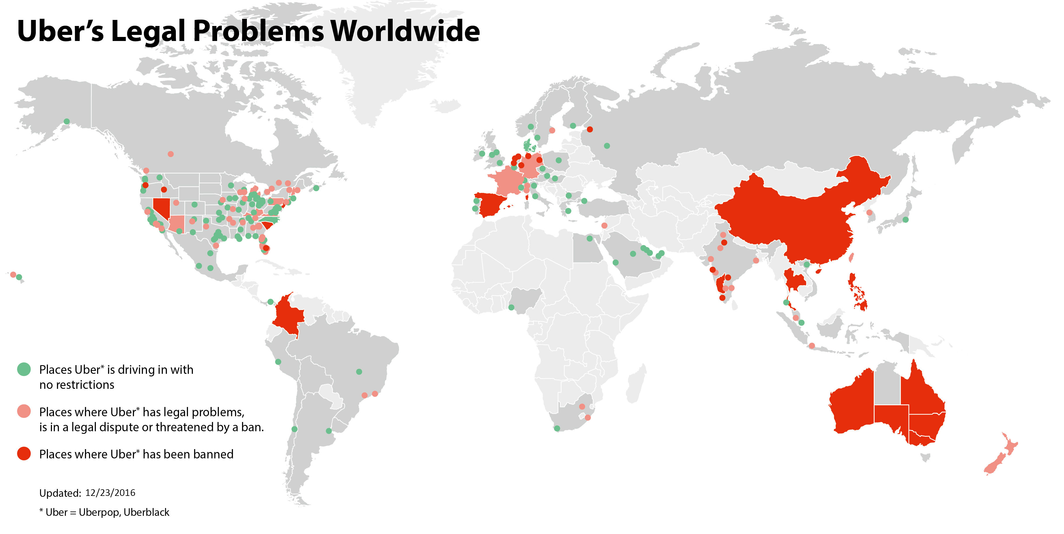 UberPop's and UberBlack's legal issues around the world. For source information, see here